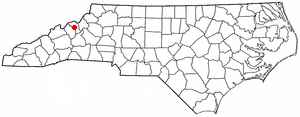 Category:North Carolina Dot Maps